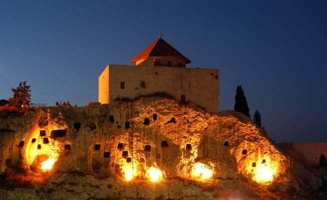 own work own work